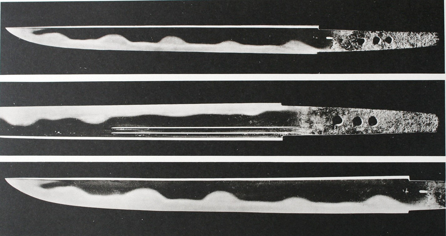 Tantō or Hyūga Masamune , 24.8cm , Unsigned Masamune, Formerly in the possession of Ishida Mitsunari who gave this sword to the husband of his younger sister; the sword was stolen during the Battle of Sekigahara by Mizuno Katsushige, governor of Hyūga Province, Kamakura period, around Shōō to Karayaku eras (1288–1328), Mitsui Memorial Museum, Mitsui Memorial Museum, Tokyo, Japan